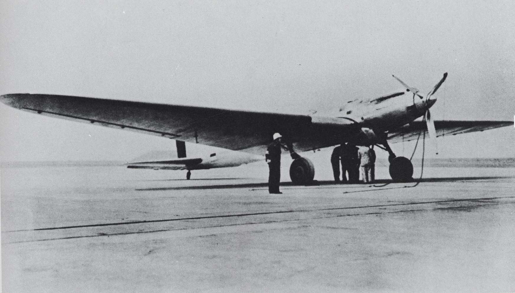 The japanise research aircraft Gasuden Koken.